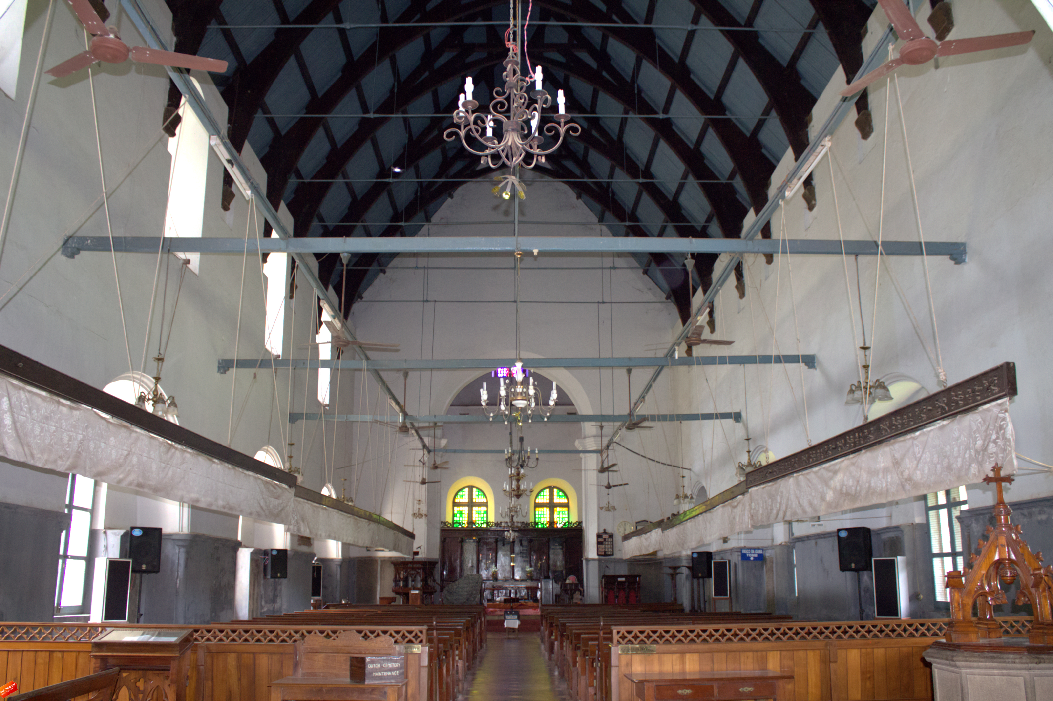 the alter, pew and the roof of St. Francis Church